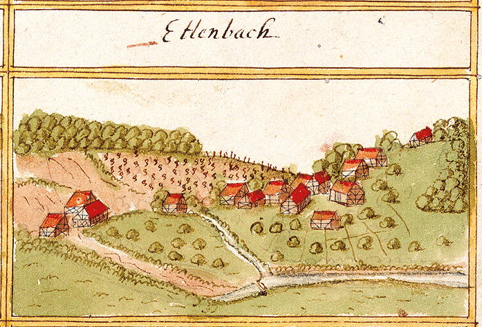 View of Jettenbach, Schmidhausen, Beilstein, from the forest register books created by Andreas Kieser